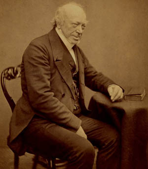 Portrait of Henry Padwick (1805–1879), English solicitor and moneylender.